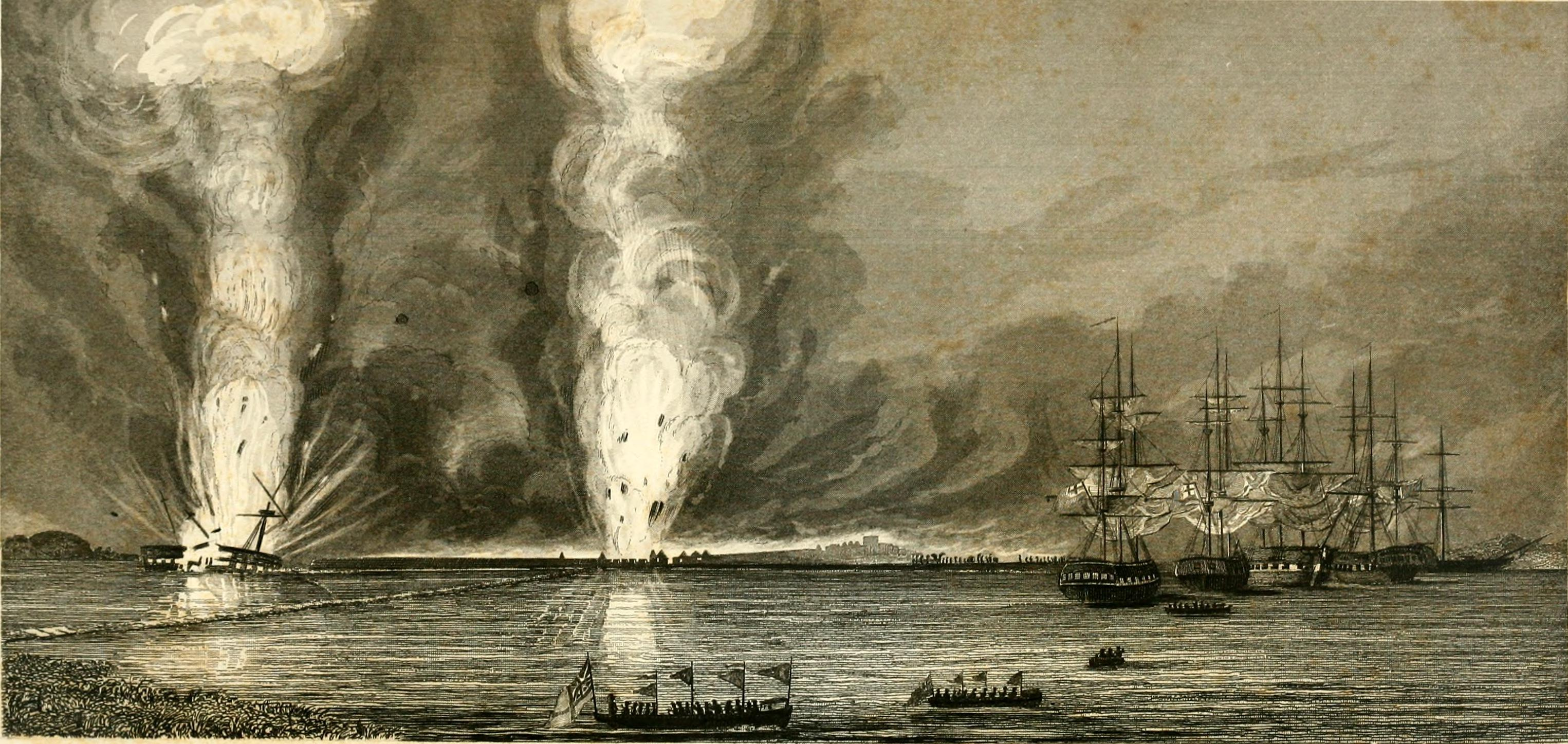 Attack on First Bar battery, Canton River.